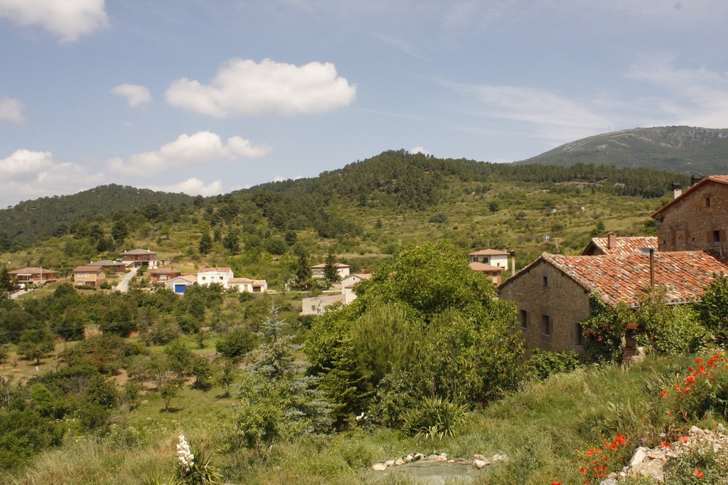 View of Cantabrana